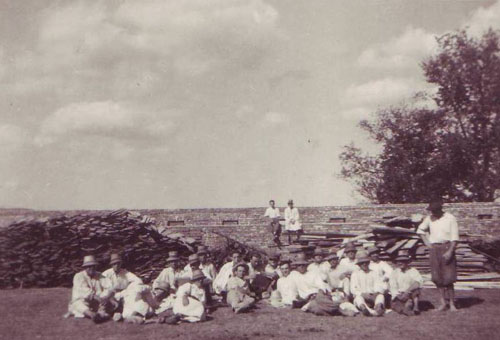 state farm in Chelmac, Arad County, Romania (1952)